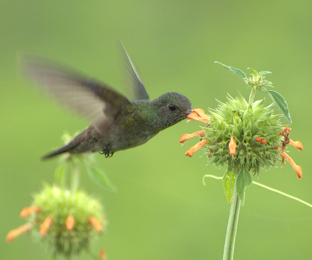 Female White-chinned Sapphire (Hylocharis cyanus). Originally mistakenly identified as Aphantochroa cirrochloris. Margem do rio Ribeira de Iguape próximo à cidade de Registro-SP